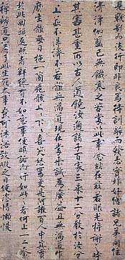 Buddhist sermon (法語, hōgo). Hanging scroll, ink on paper, 85.2 × 41.4 cm (33.5 × 16.3 in). Owned by Kenchō-ji, Kamakura, Kanagawa, Japan